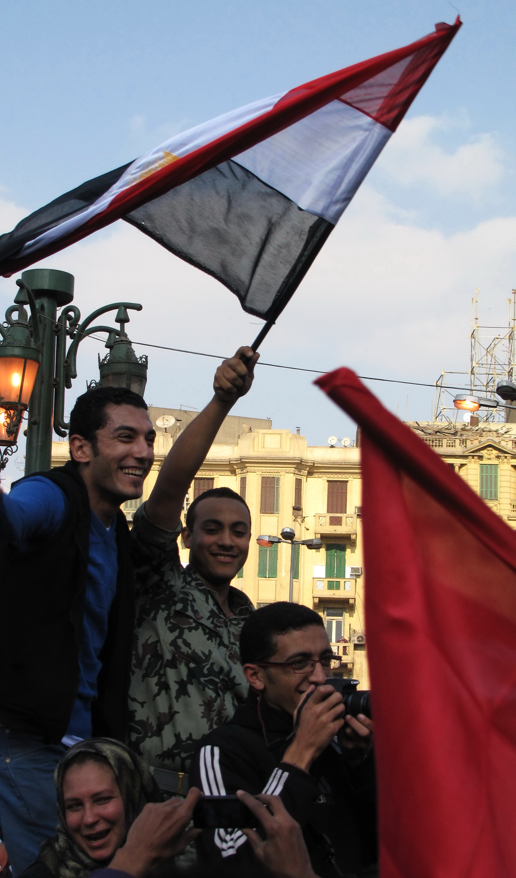 An Egyptian soldier joins protesters in celebration of Mubarak's downfall in Tahrir Square, Cairo, during the Egyptian Revolution of 2011.